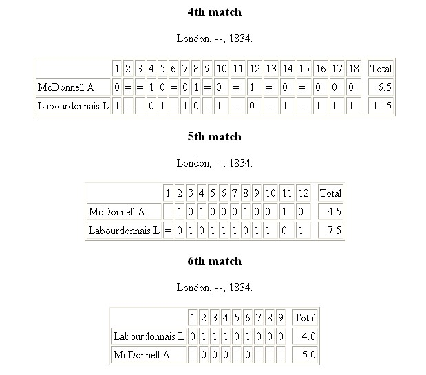 World_Chess_Championship_1834_Labourdonnais_-_McDonnell_Matches_4-6